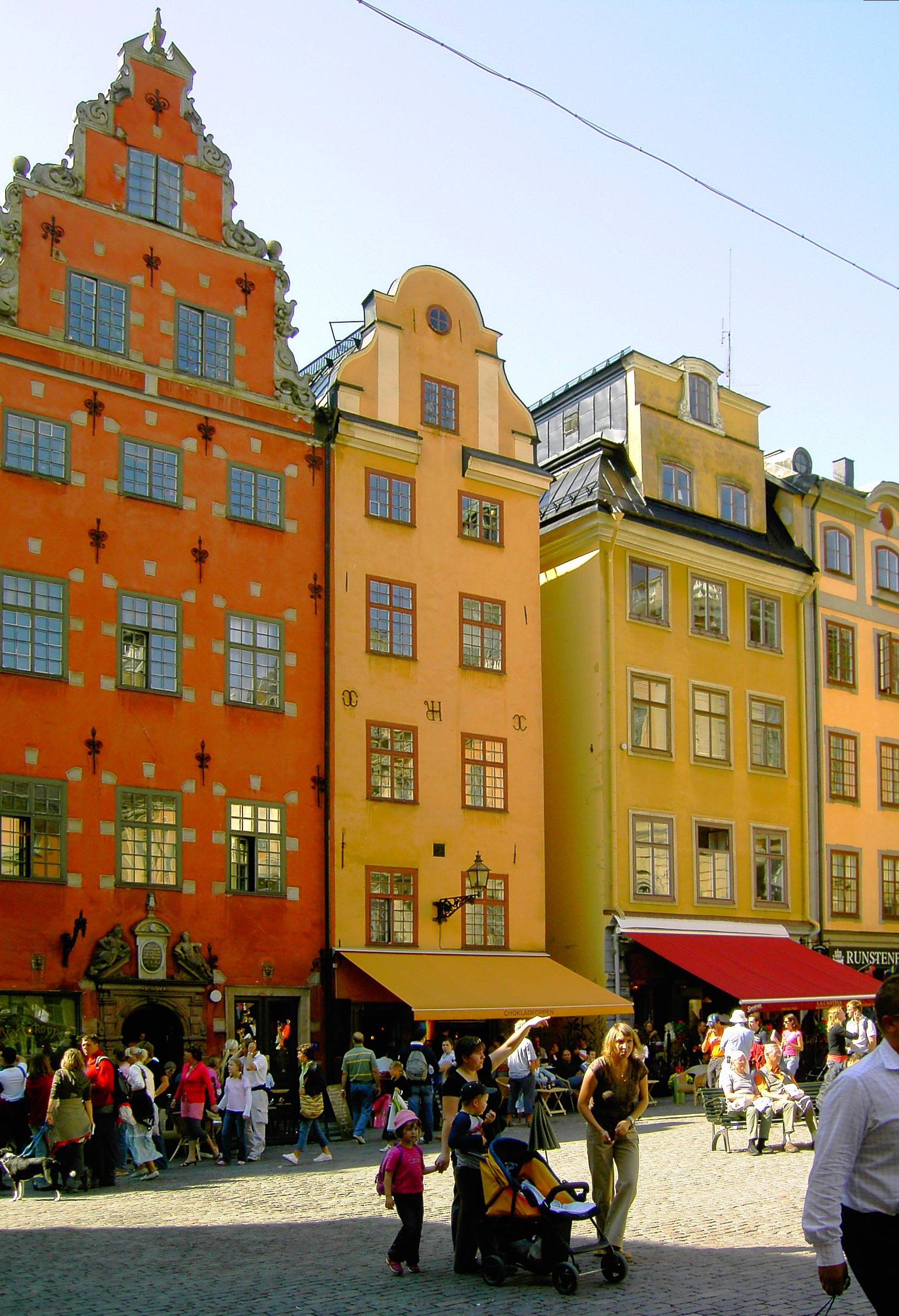 Stortorget, Gamla stan, Stockholm, Sweden